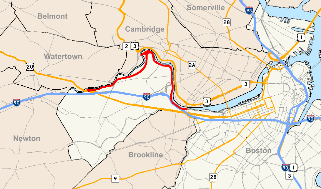 Map showing Soldiers Field Road in Boston, Massachusetts, United States with major highways, with Soldiers Field Road highlighted in red